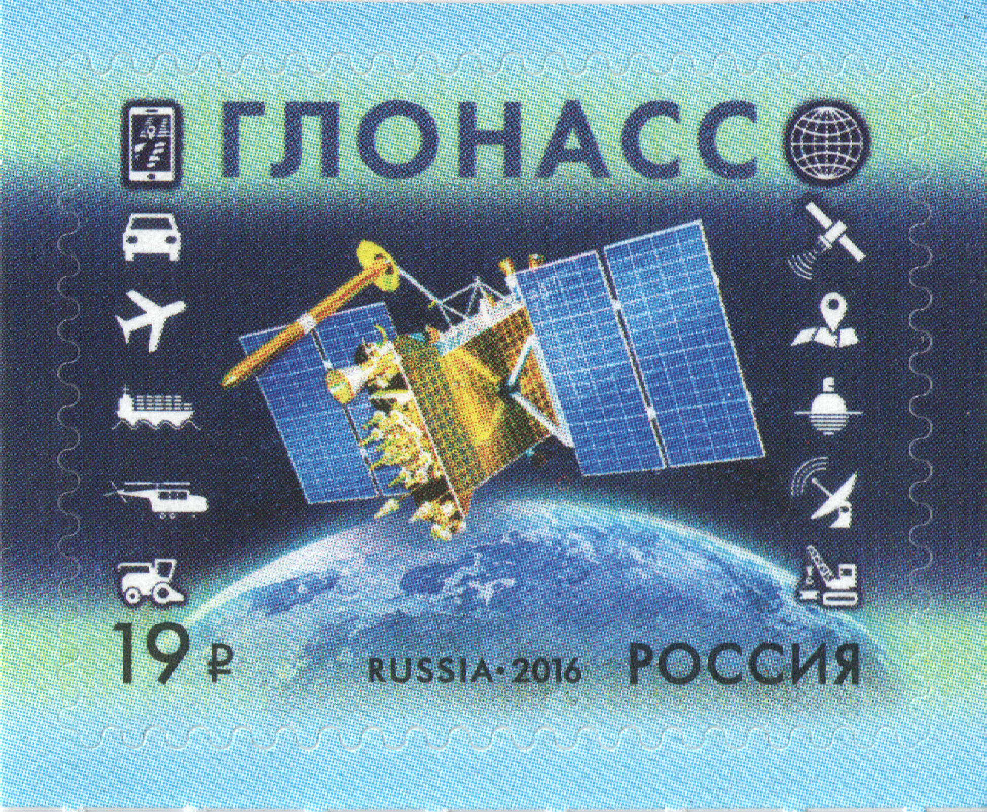 Russian postal stamp of GLONASS. Cost 19 rubles.